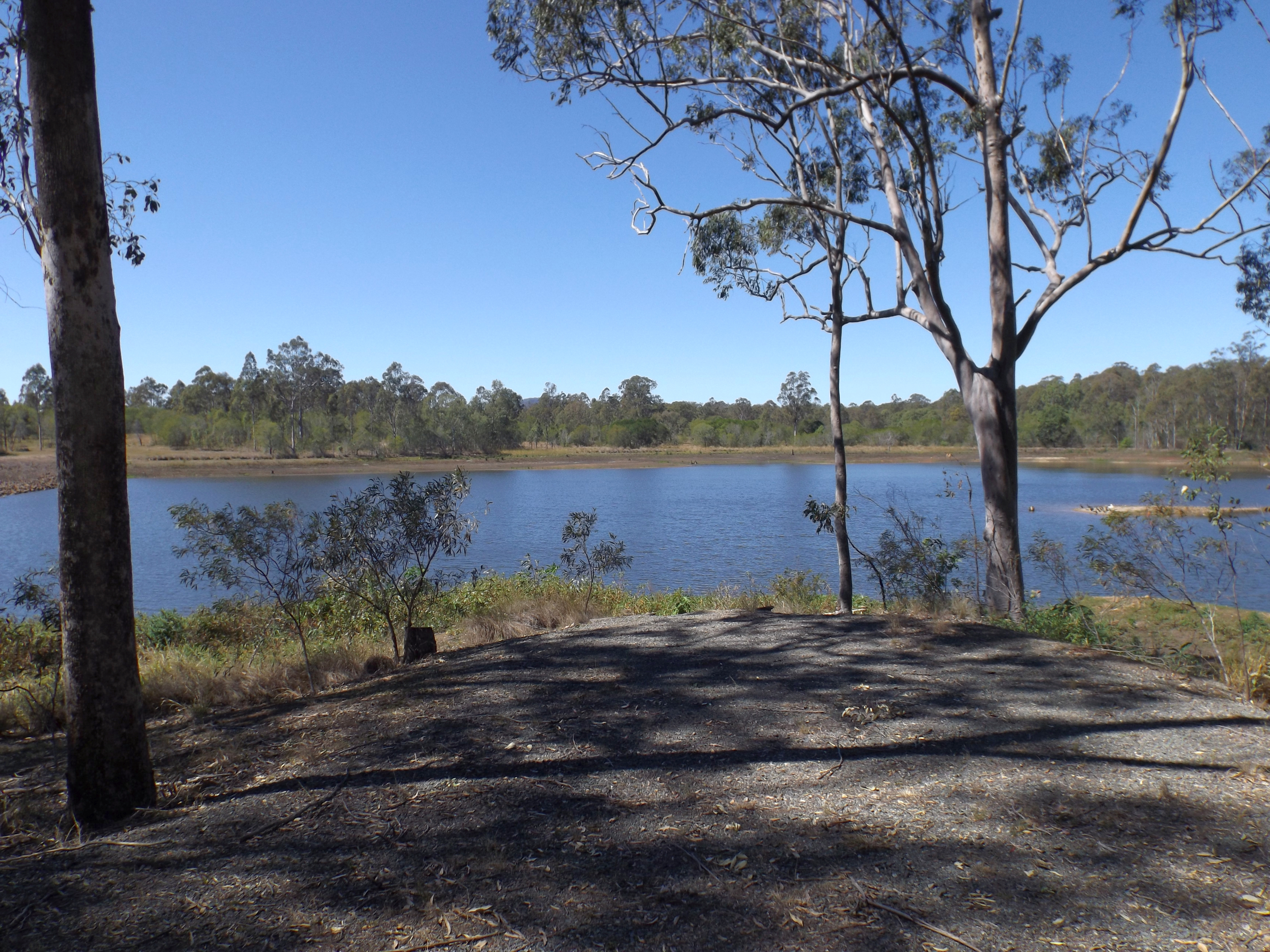 Photo of Nindooinbah Dam at Beaudesert, Scenic Rim Region, Queensland, Australia.